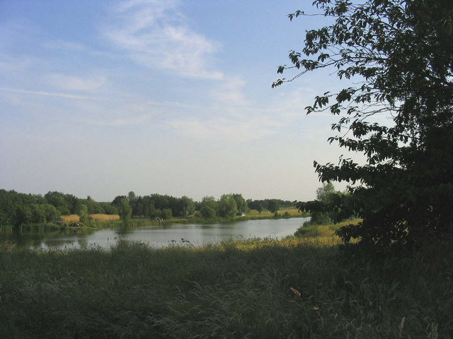 Fishing lakes - Little Linford. These old gravel workings on the north side of the Great Ouse River are now private fishing lakes.